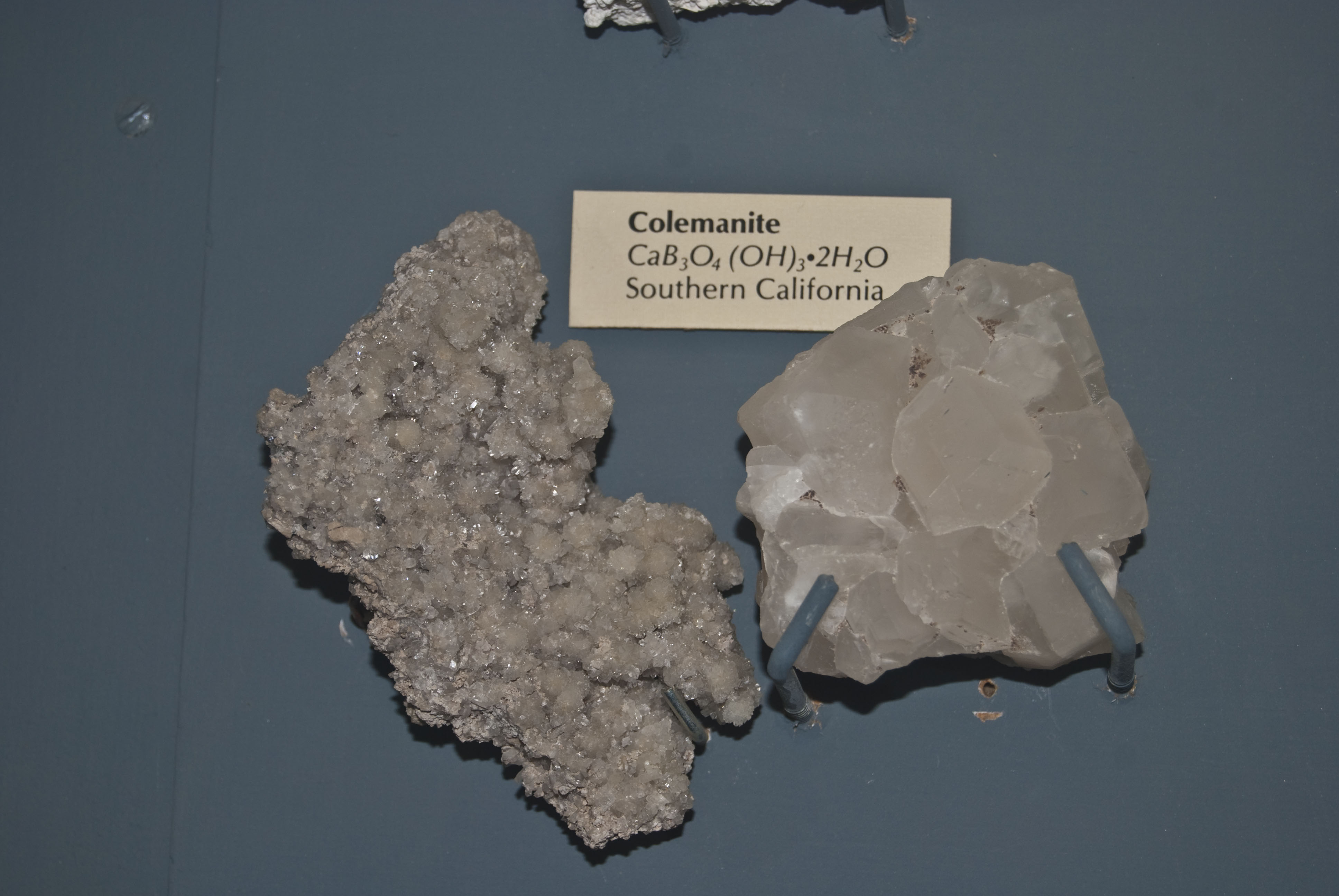 Norman and Gertrude Pendleton mineral collection Colemanite Southern California